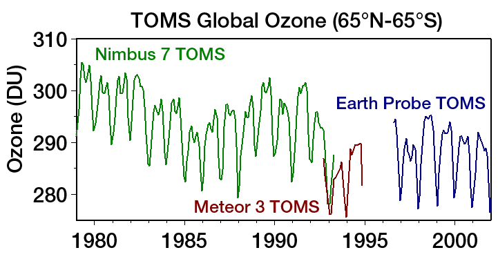 This image shows the global (from 65 degrees north latitude to 65 degrees south latitude) monthly average total ozone amount for the time period 1979 through the end of 2001. The green line shows the results from Nimbus-7 TOMS instrument. The red line shows the results from the Meteor-3 TOMS instrument. The blue line shows the results from the Earth Probe TOMS instrument, which developed a fault in 2002.